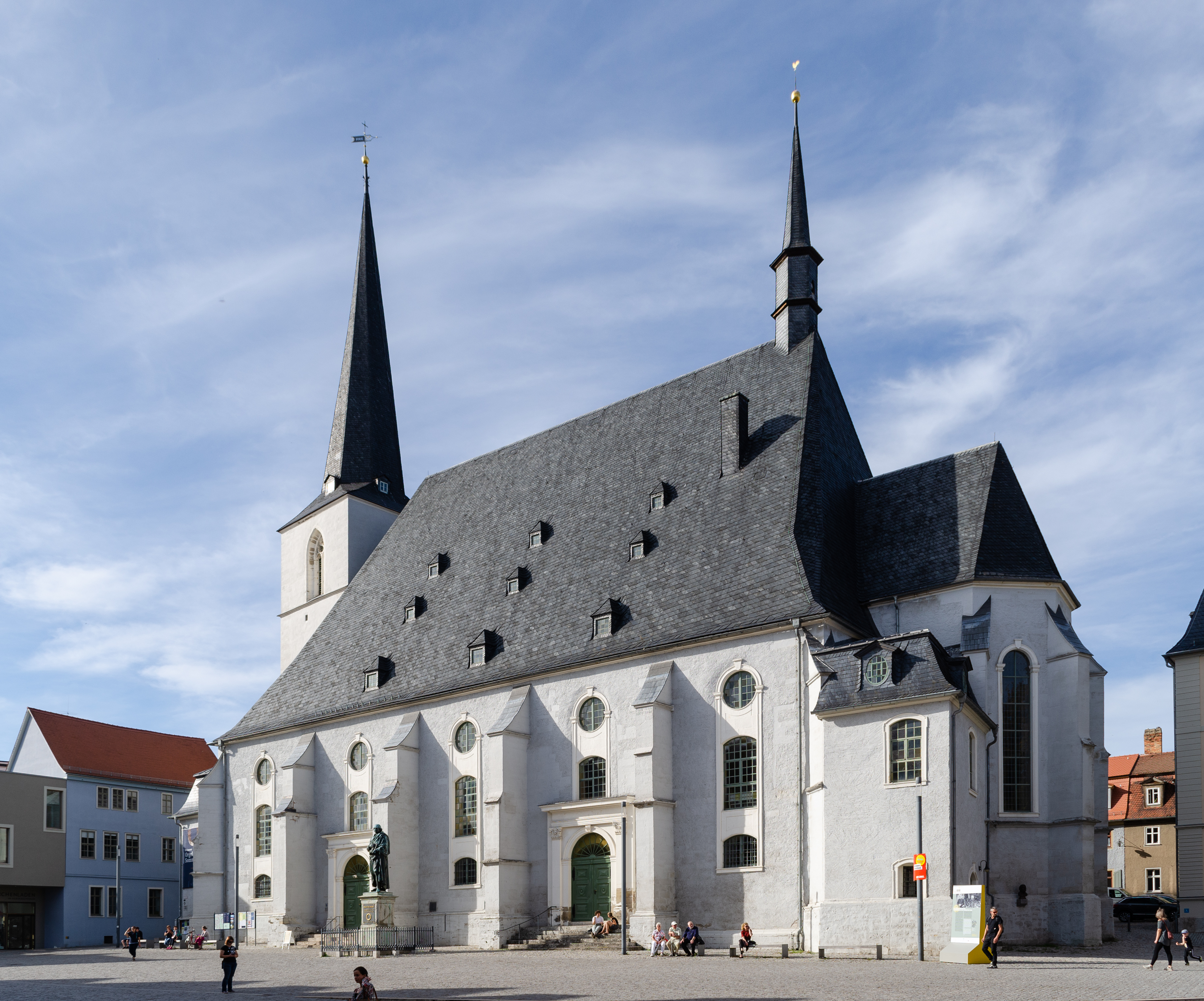 Weimar (Thuringia, Germany) – St. Peter's and Paul's Church, so called Herder Church – view from the southeast